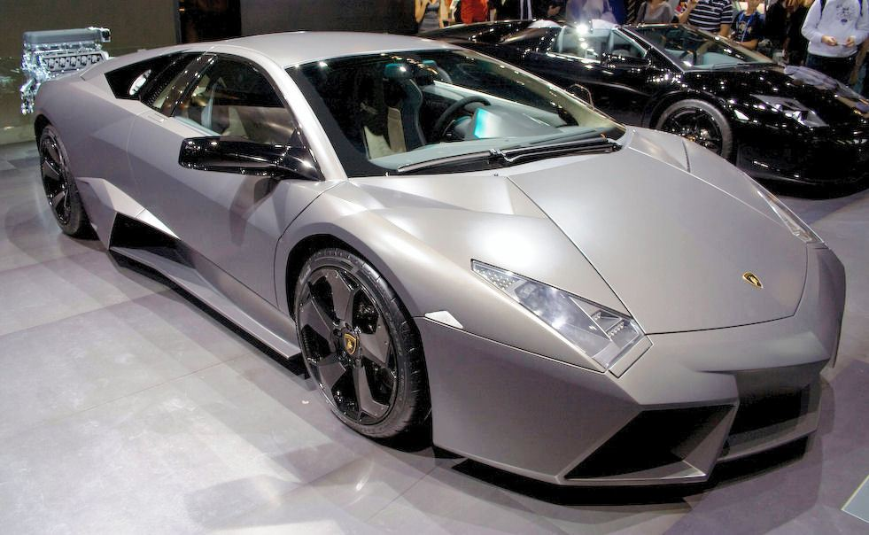 Lamborghini Reventón at the 2007 Frankfurt Auto Show